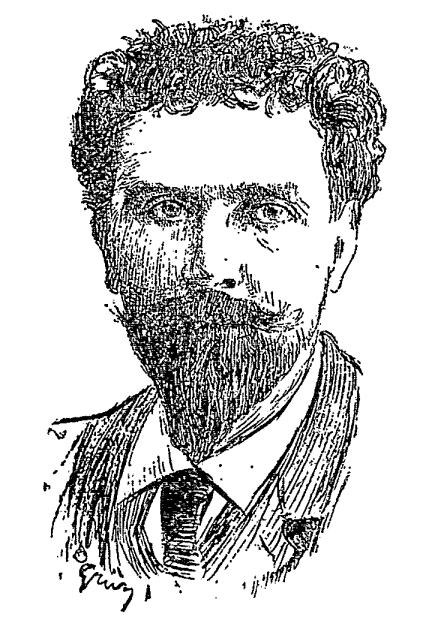 French anarchist and journalist Zo d'Axa (1864-1930) by Jules Alexandre Grün (1868-1934)